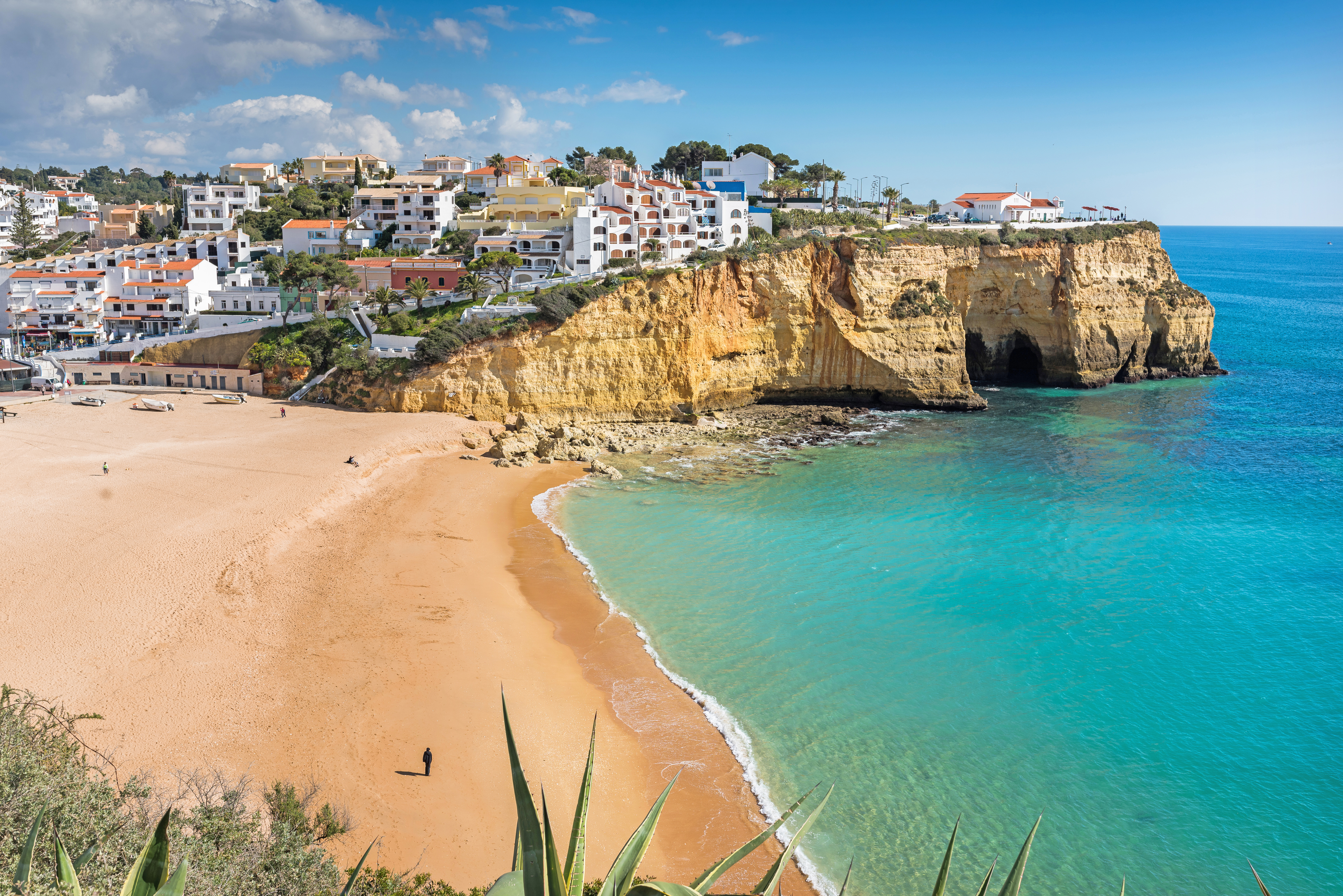 Carvoeiro Portugal February 2015